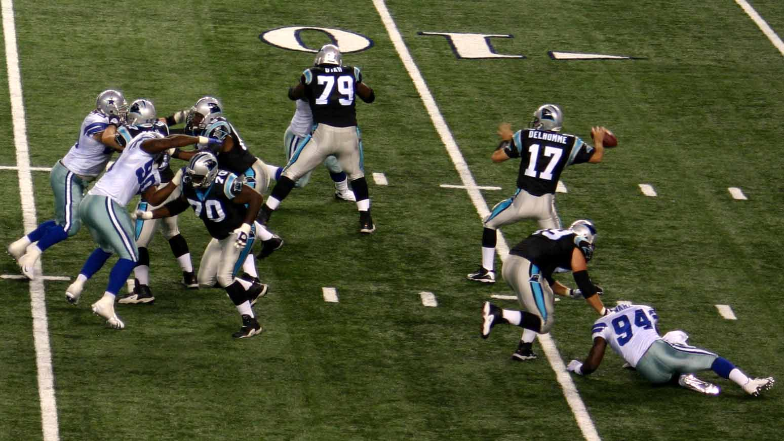 Jake Delhomme (#17) goes deep